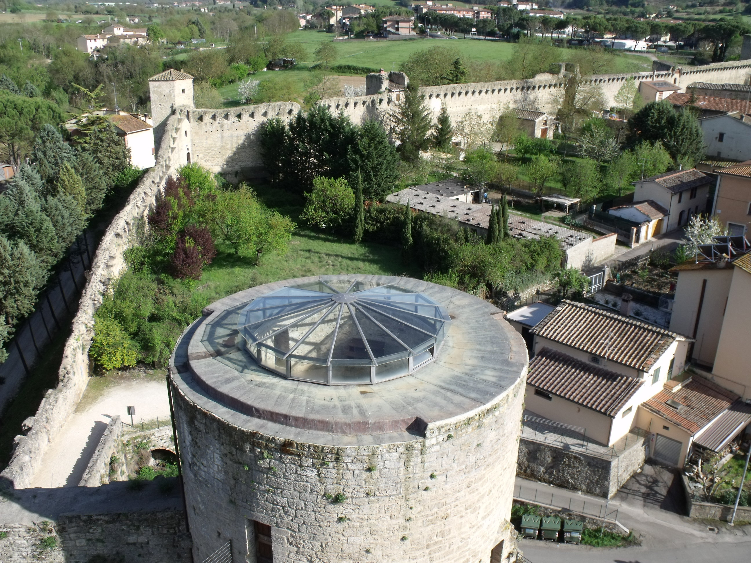 City wall and Torre Tonda (verso Staggia) of the Castle in Staggia Senese, Poggibonsi, Province of Siena, Tuscany, Italy